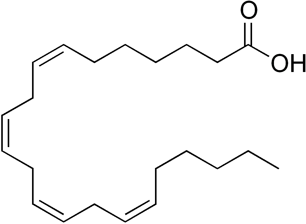 chemical structure of adrenic acid